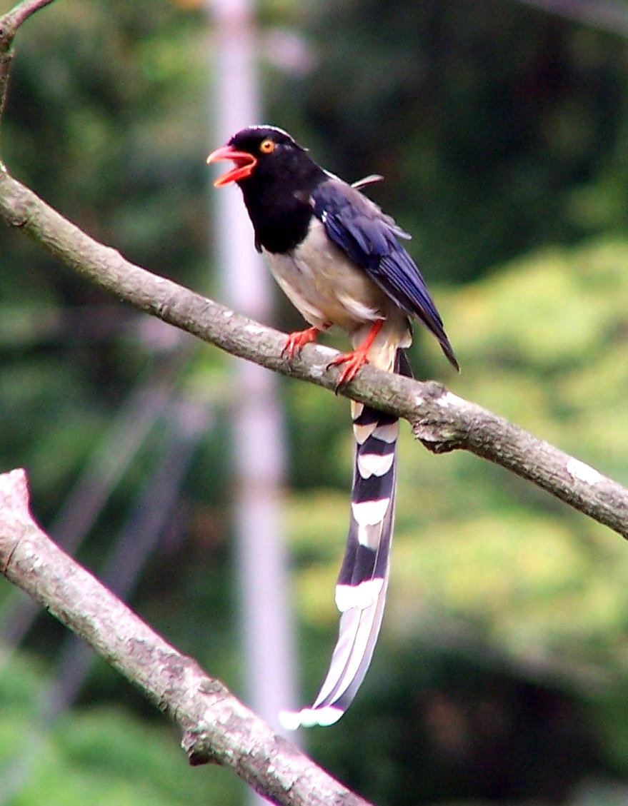 Red-billed Blue Magpie - Urocissa erythrorhyncha Location: Hong Kong